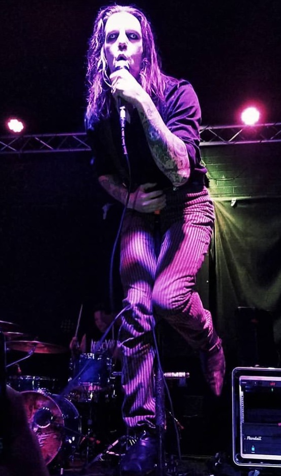 USA Nov. 2018